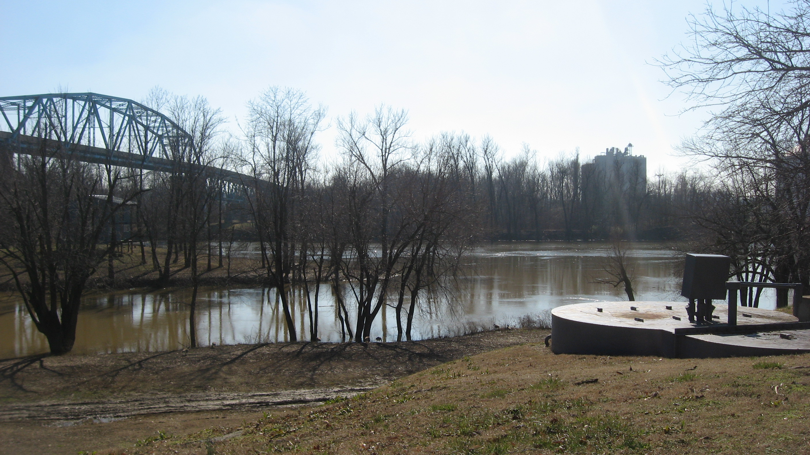 Looking south from the riverfront in Livermore, Kentucky, United States, toward the confluence of the Rough (nearer) and Green (farther) Rivers. Note the Livermore Bridge in the background. The small spit between the two rivers is part of Ohio County, while everything else in the image is within McLean County.